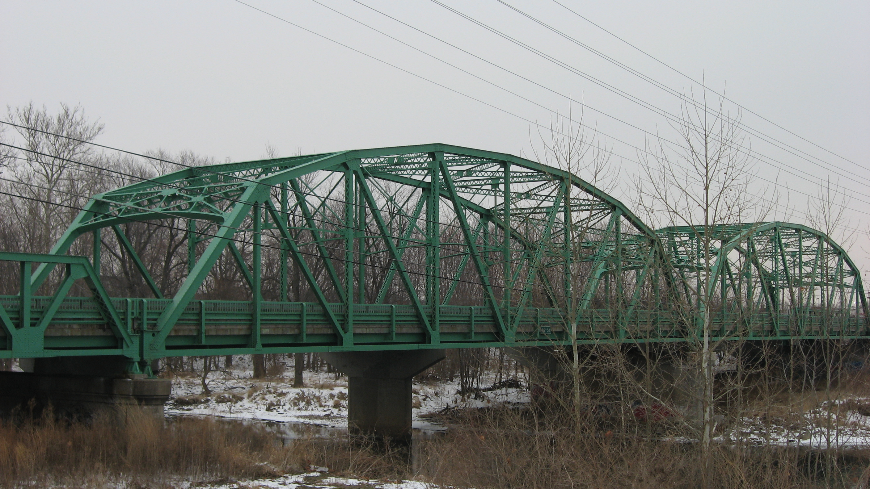 Southern side of the Marion County Bridge 0501F, which carries 82nd/86th Street over the White River in northern Indianapolis, Indiana, United States. Built in 1942, this Parker steel through truss bridge is listed on the National Register of Historic Places.